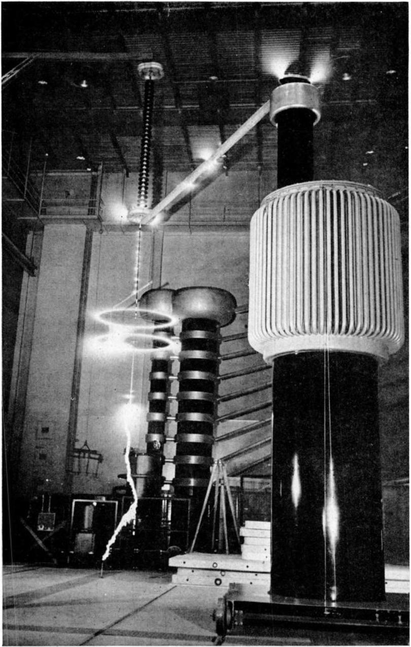 High voltage laboratory at the U.S. National Bureau of Standards, Washington DC, USA, in 1948. The caption of the image in the source is: "A special 6-story laboratory at the Bureau houses a 1,400,000 volt x-ray generator (rear) and a 1,050,000 volt cascade transformer (foreground). The latter is used for testing and calibrating commercial power equipment as well as for producing simulated lightning, used in investigating protective measures in installations and aircraft." The cascade transformer is shown in operation, producing a long electric spark. The luminous glow visible on the wires carrying the high voltage is called corona discharge, and is caused by electricity leaking into the air. The cascade transformer in the black column (right) that generates the high voltage consists of several transformers connected in cascade, with each successive transformer at the secondary potential of the previous one, so no single transformer winding will have to withstand the full output voltage.